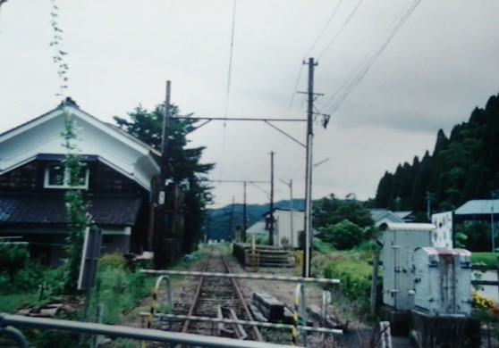 Keifuku Kyozen Station whole view 2001 August